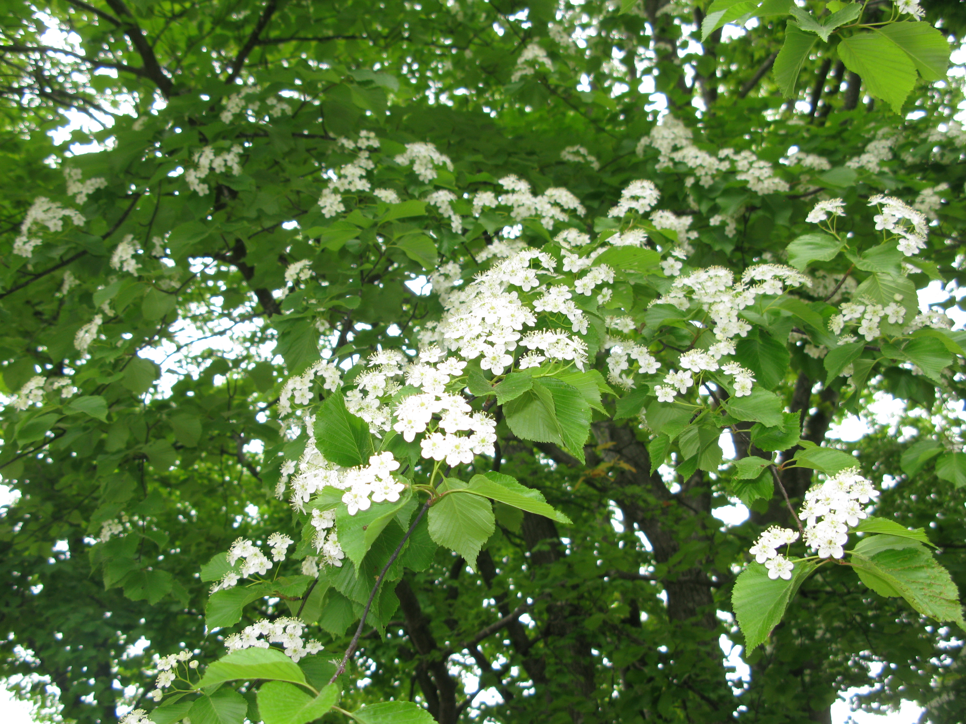 Aria alnifolia, Aizu area, Fukushima pref., Japan